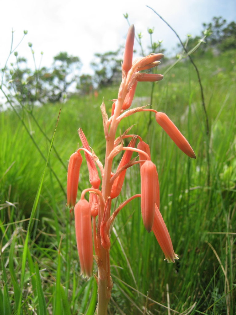 Aloe rhodesiana on Mount Gorongosa in Sofala Province of Mozambique.